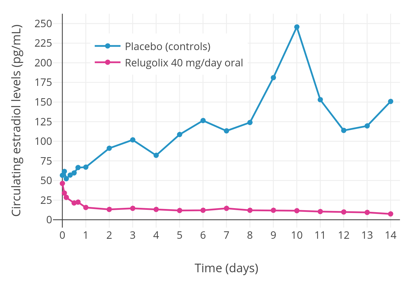 Circulating levels of estradiol (pg/mL) with 40 mg/day oral relugolix therapy in premenopausal women (n = 9) over a period of 14 days relative to untreated control premenopausal women (n = 10). Source of the values: Relumina (relugolix) Information - ASKA Pharmaceutical (in Japanese) (PDF). ASKA Pharmaceutical (January 2019). Retrieved on 16 February 2019.